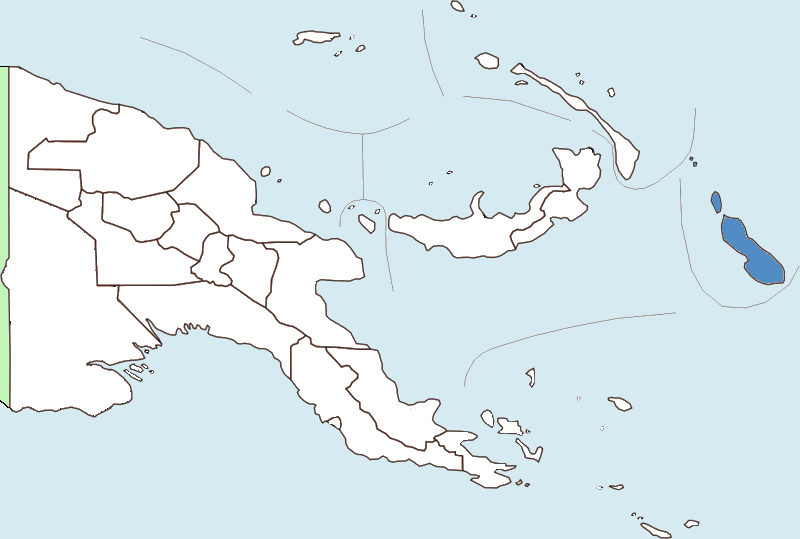 Map showing location of Bougainville Province in Papua New Guinea